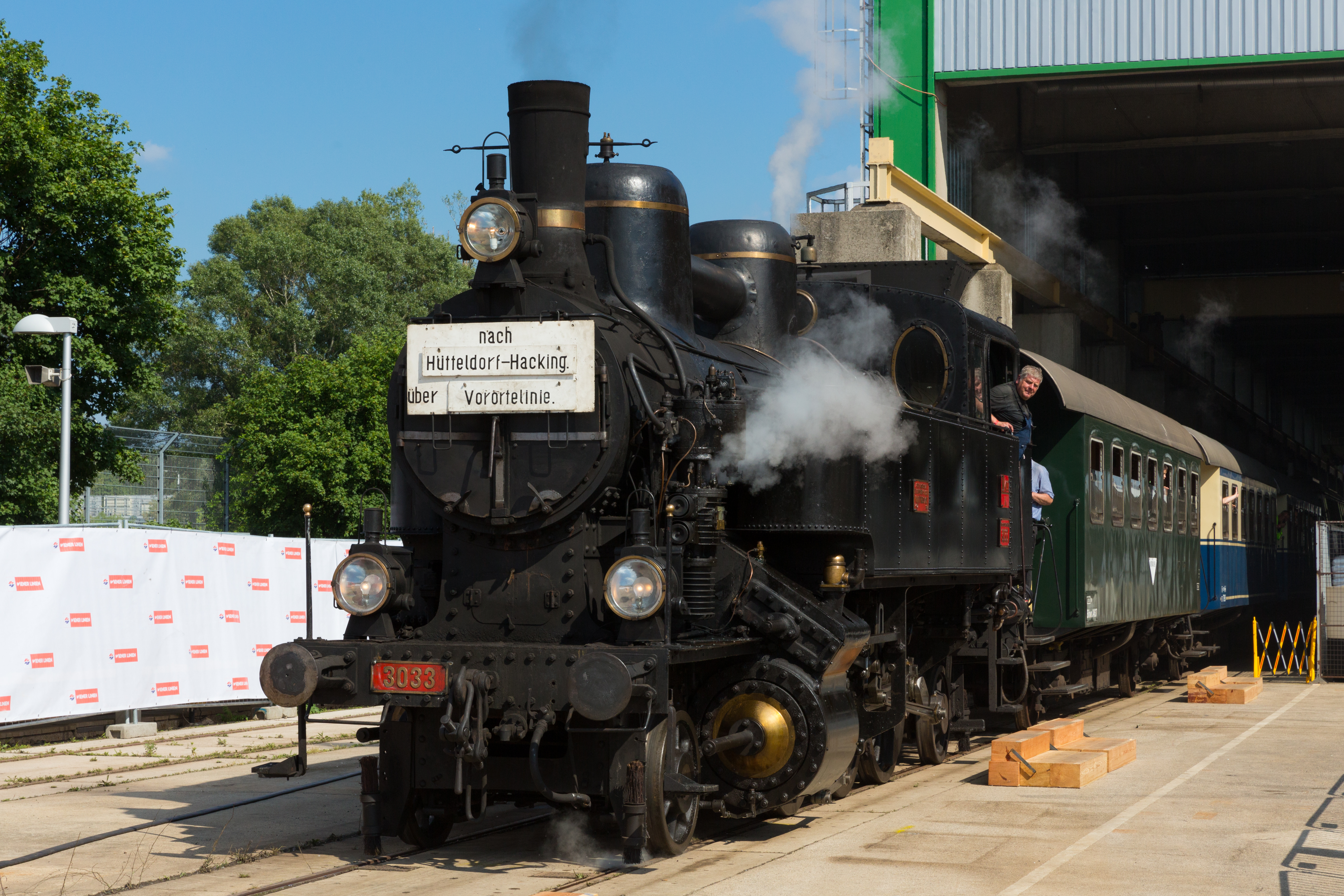 Steam engine 3033 on the earea of the Erdberg metro depot.